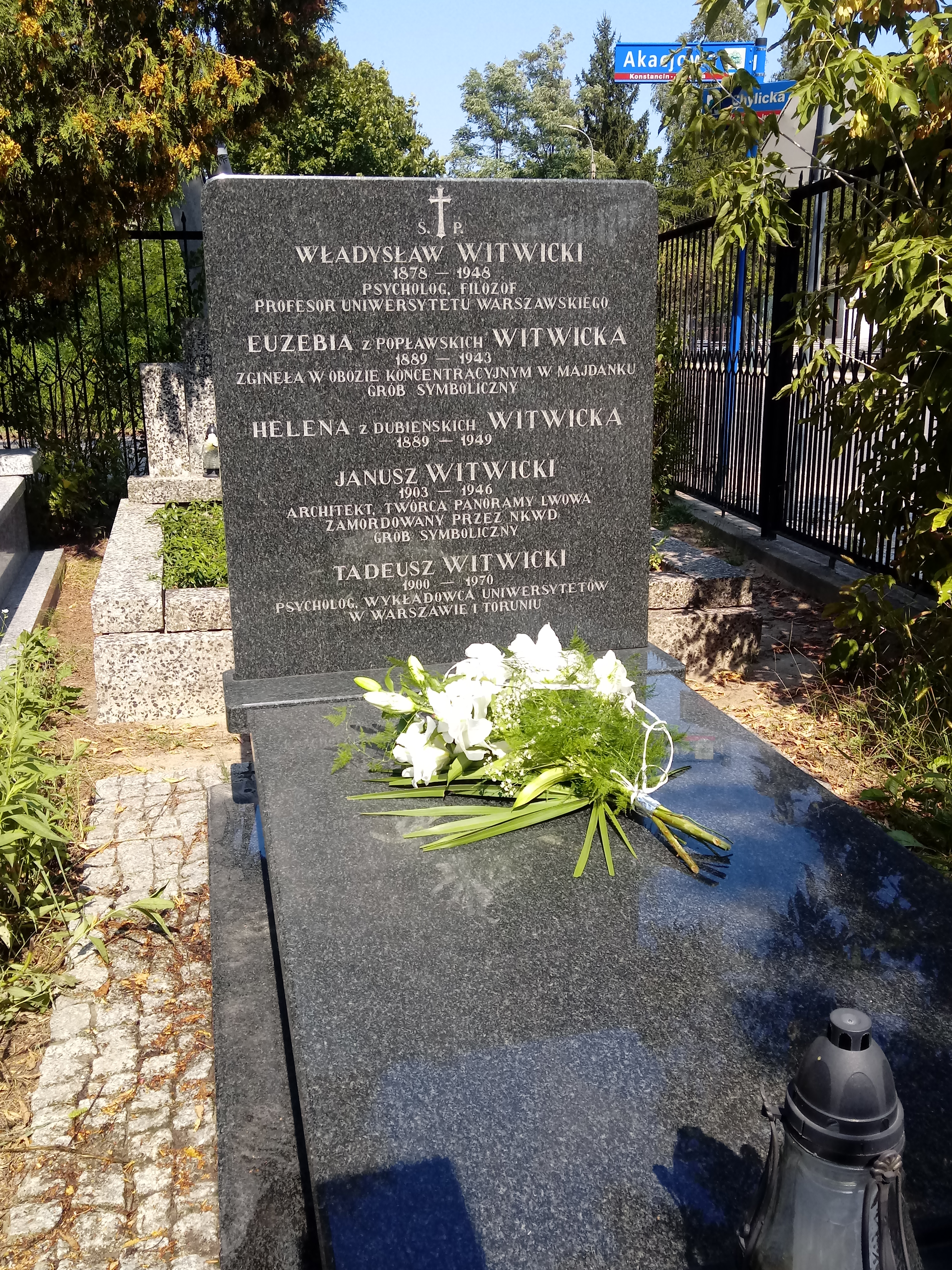 The grave of the Witwicki family at the cemetery in Skolimów (Konstancin-Jeziorna). The year of birth of Euzebia Popławska (born in 1880) and Tadeusz Witwicki (born in 1902) was incorrectly given.